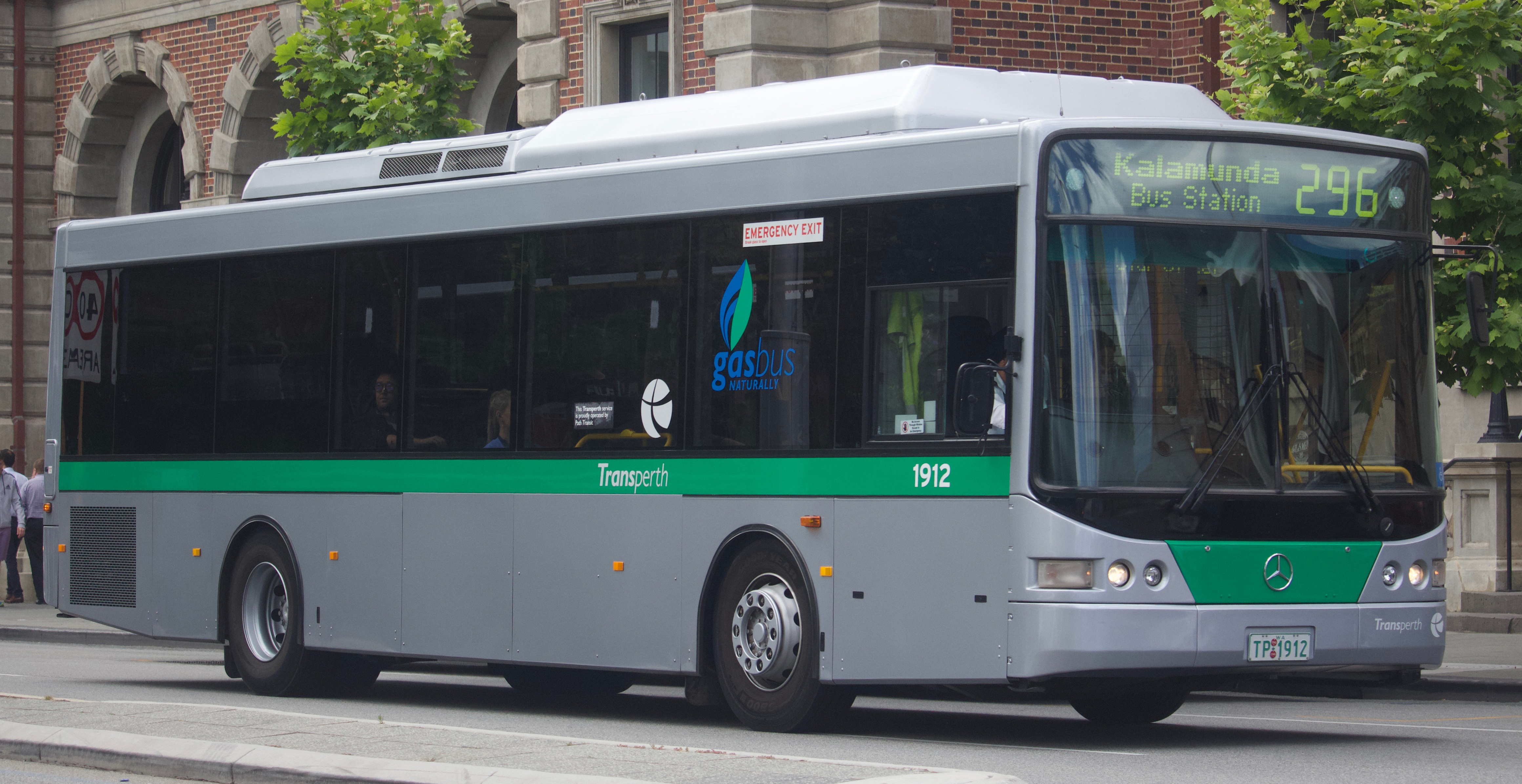 Volgren CR228L bodied Mercedes-Benz OC 500 LE CNG (#1912, TP1912; built: 2005) operating for Transperth under Path Transit on route 296. This used to be on the Perth CAT, but have been discontinued due to Volvo.